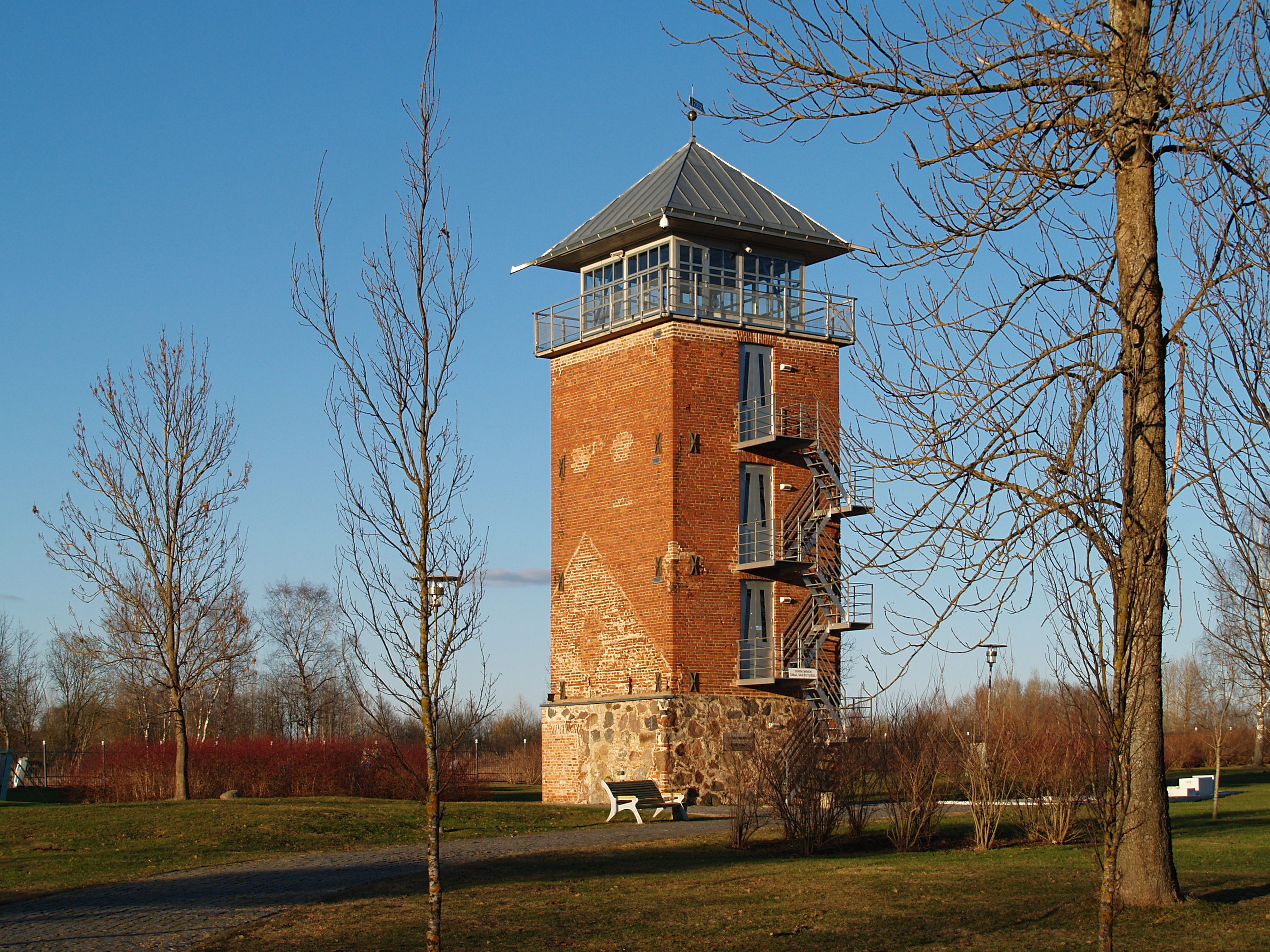 Raadi manor water tower.